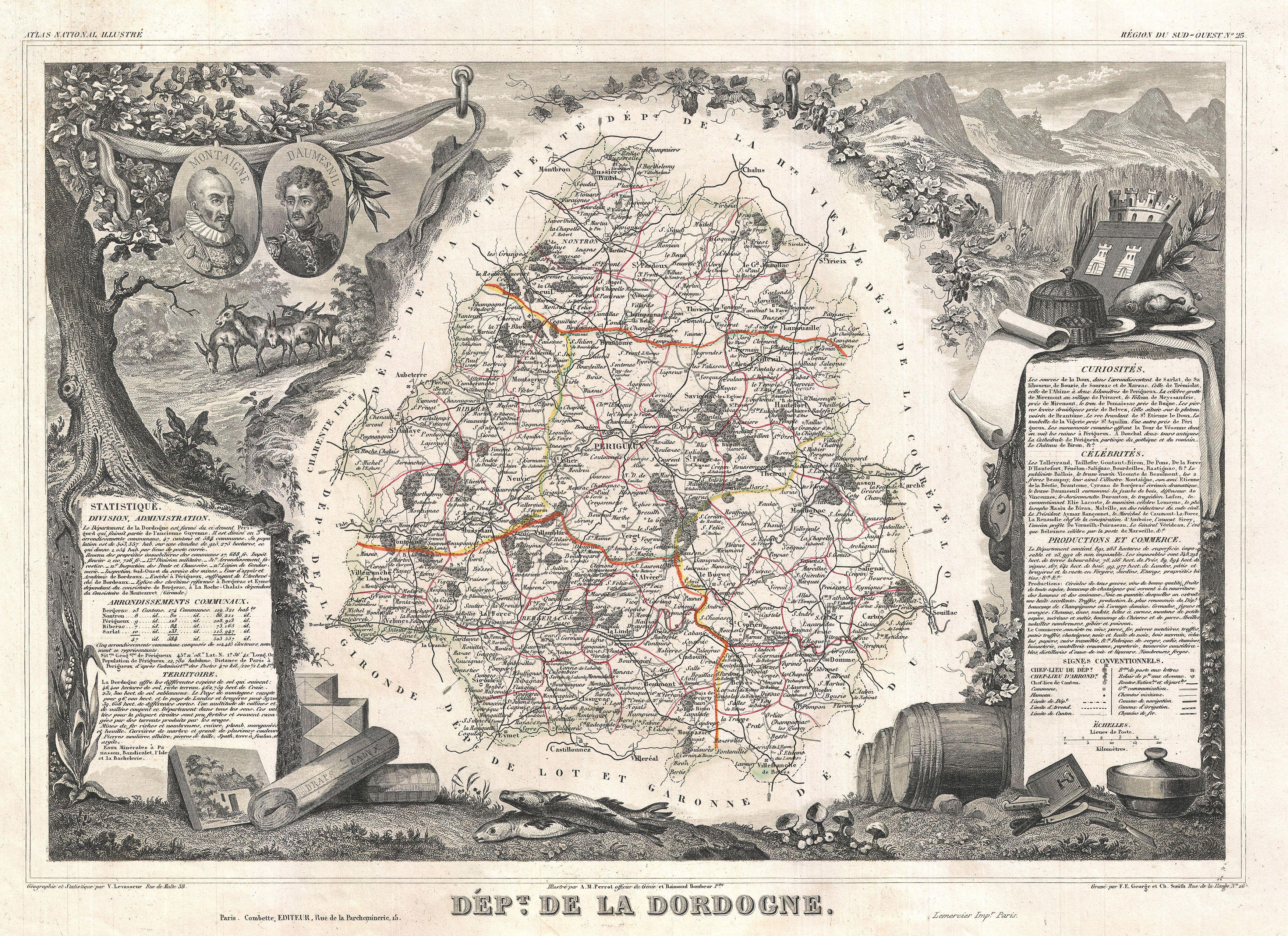 This is a fascinating 1852 map of the French department of Dordogne, France. This area is best known for its production of Monbazillac, a sweet white wine, and Cabécou, a soft goat cheese. The whole is surrounded by elaborate decorative engravings designed to illustrate both the natural beauty and trade richness of the land. There is a short textual history of the regions depicted on both the left and right sides of the map. Published by V. Levasseur in the 1852 edition of his Atlas National de la France Illustree.